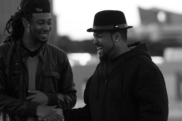 Gabriel Hart